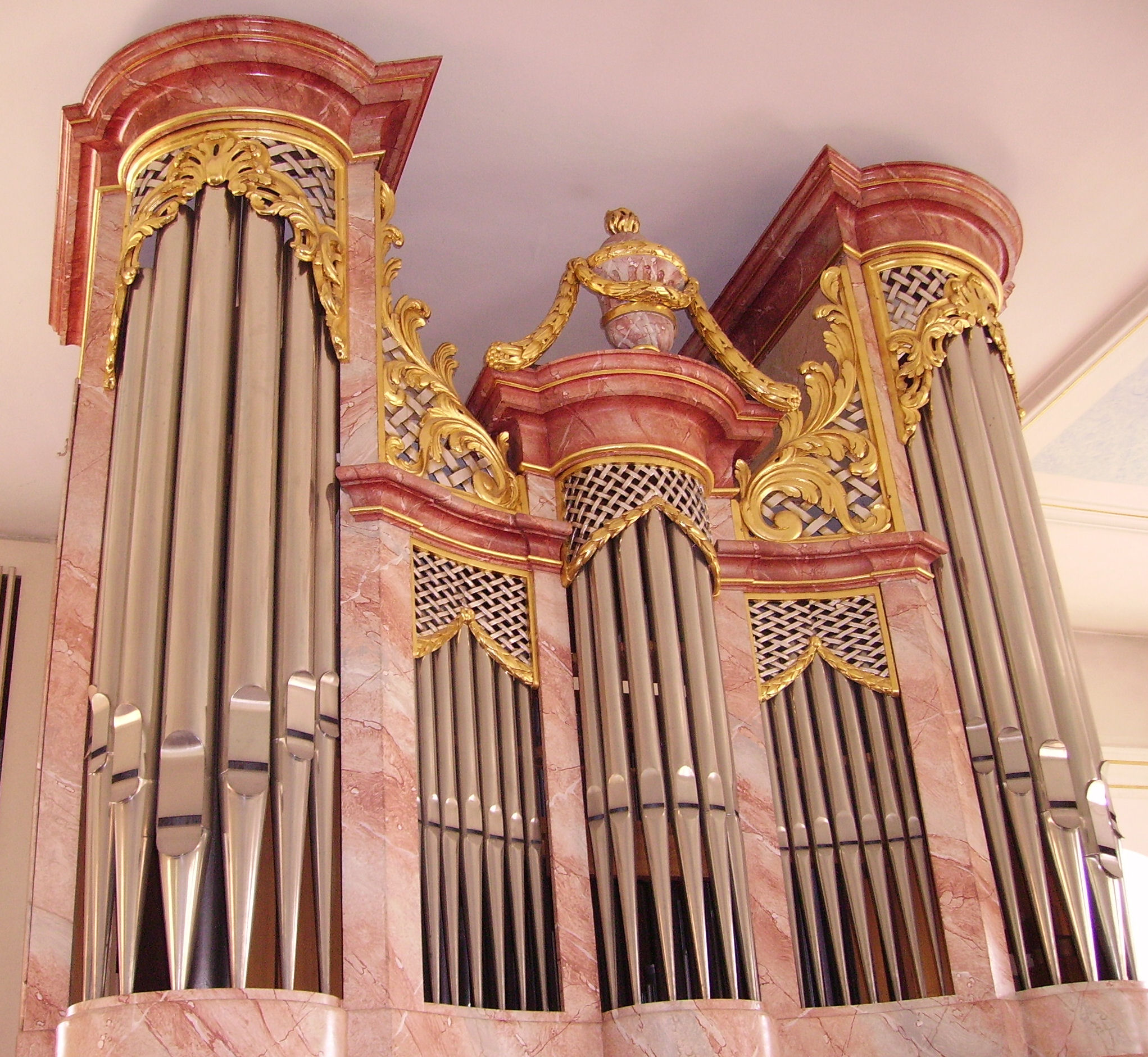 view of Maudach, part of Ludwigshafen, Germany